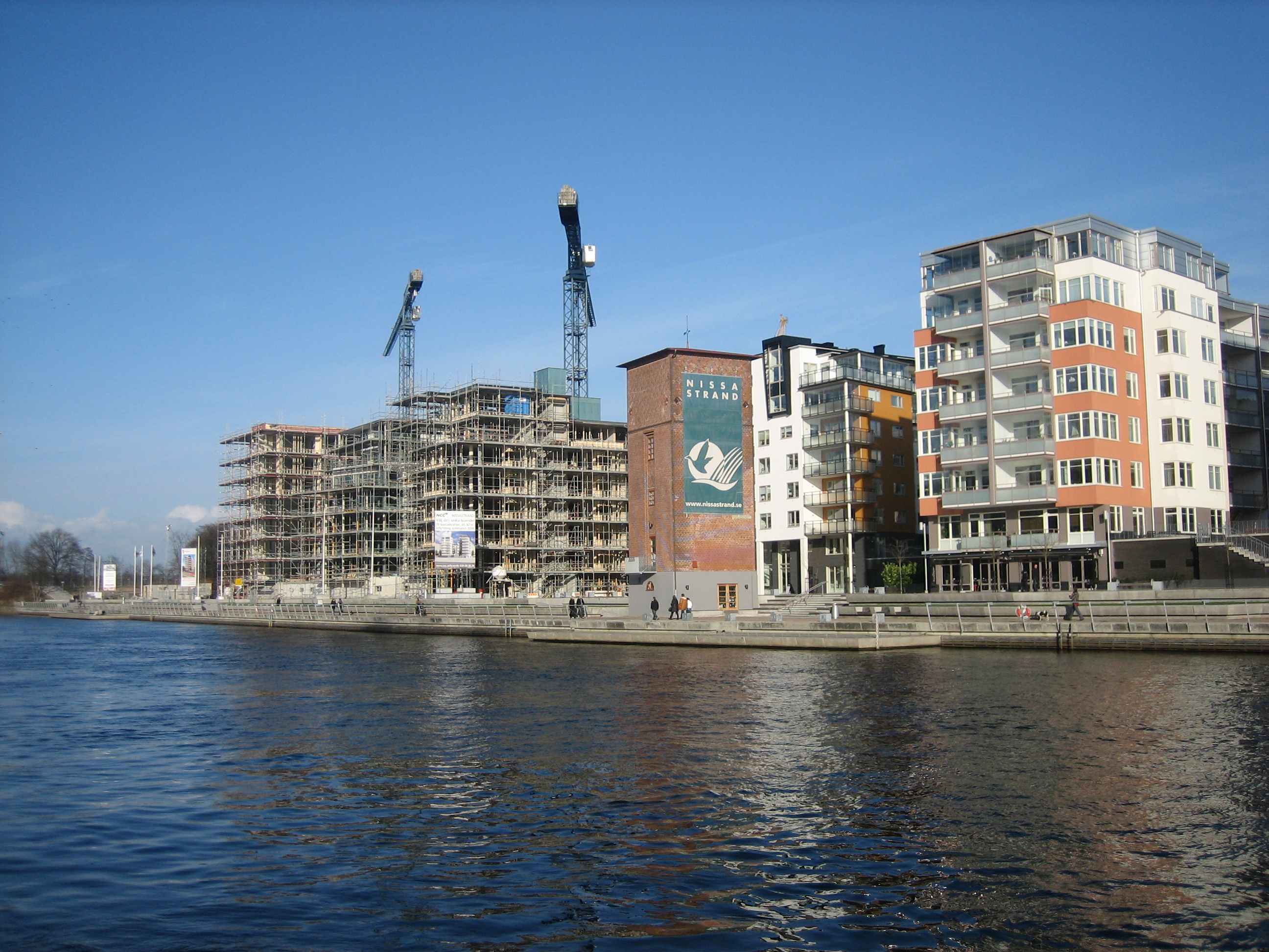 Nissastrand residential area in Halmstad, Sweden, under construction